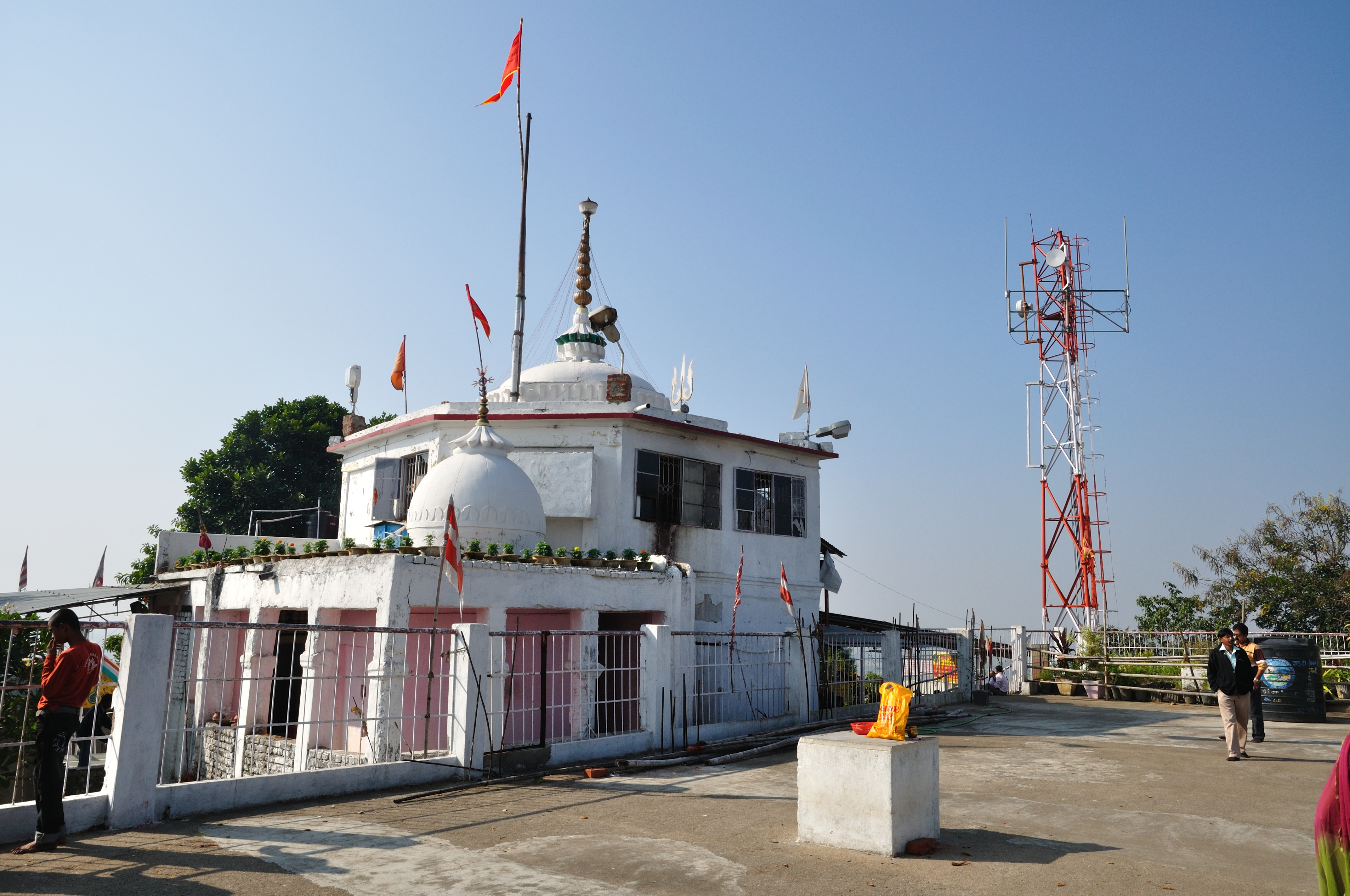 Ranchi Hill and Pahari Mandir : is one of the landmark of Ranchi Town. The Shiva temple is situated on the top of the hill also known as Pahari Mandir.